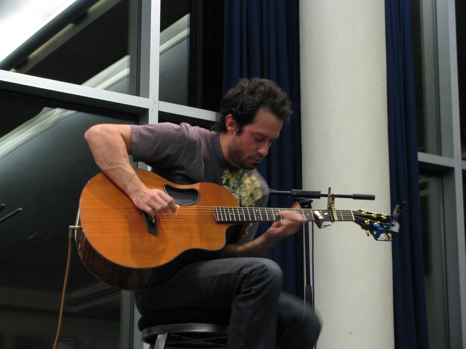 Trace Bundy playing a live college show at Utah State University in Logan, UT on Nov 13th 2008.